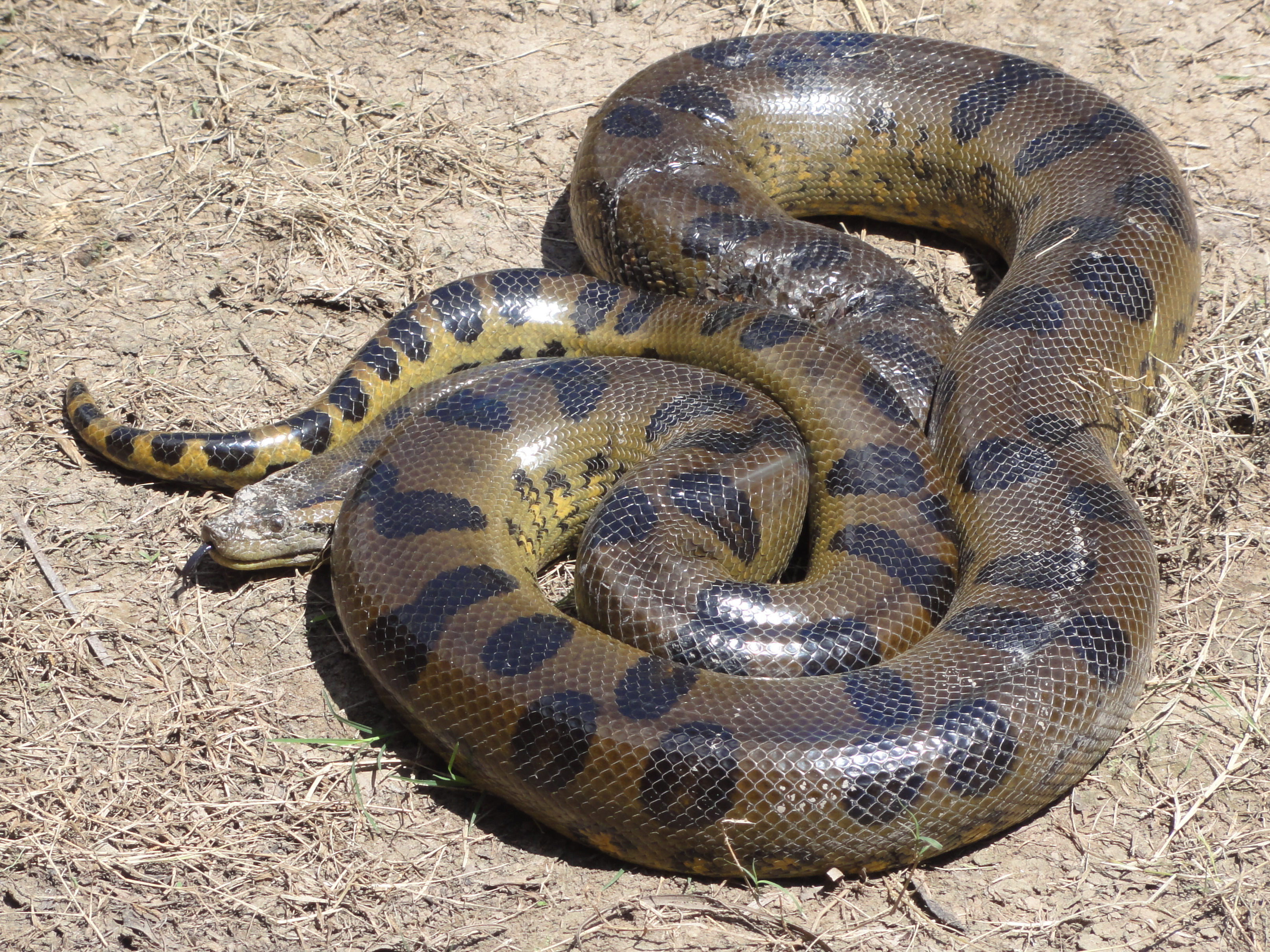 An Anaconda Eunectes murinus found caught in fishing nets and brought back to the Lodge at Requena, Loreto, Peru